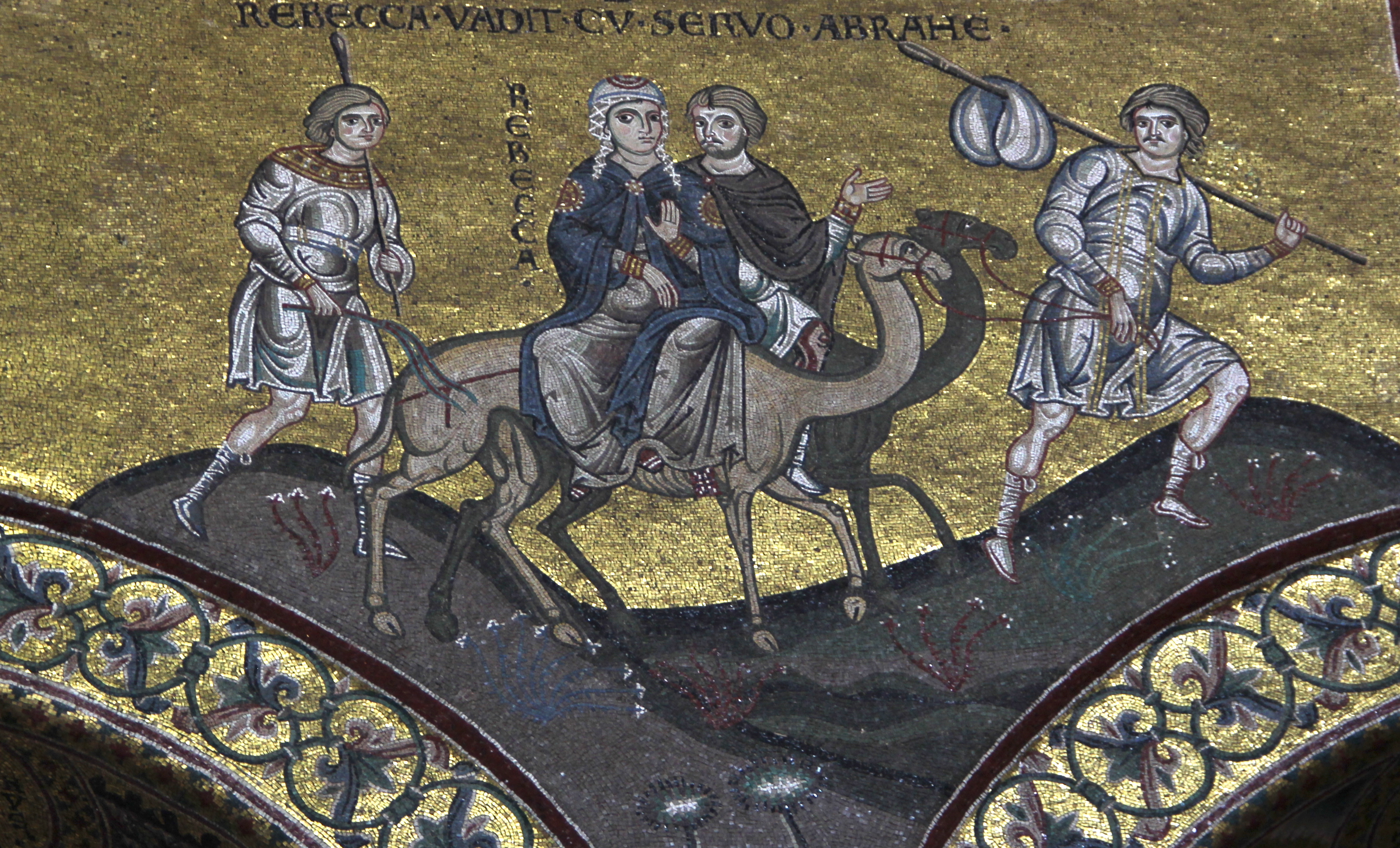 Then Rebekah and her attendants got ready and mounted the camels and went back with the man (Genesis 24, 61)